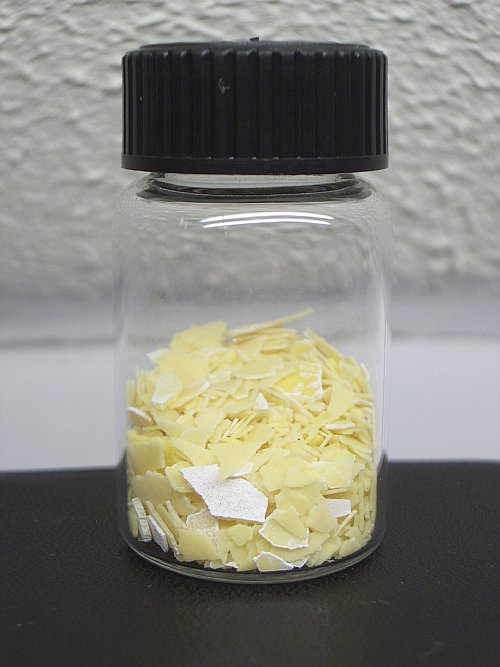 Sodium sulfide crystals, technical grade